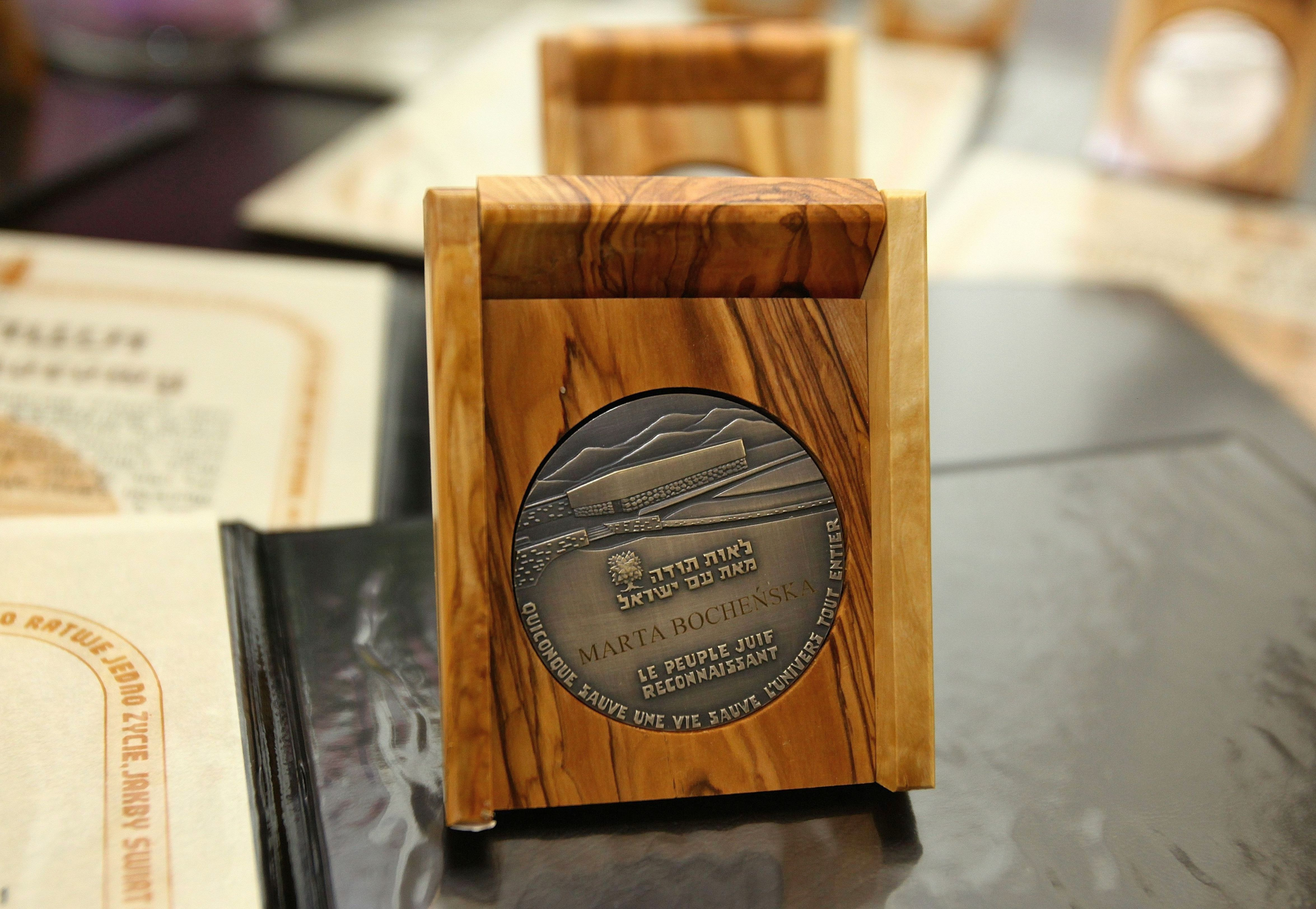 Righteous Among the Nations medal received posthumously by Marta Bocheńska on 17th April 2012 in the Polish Senate